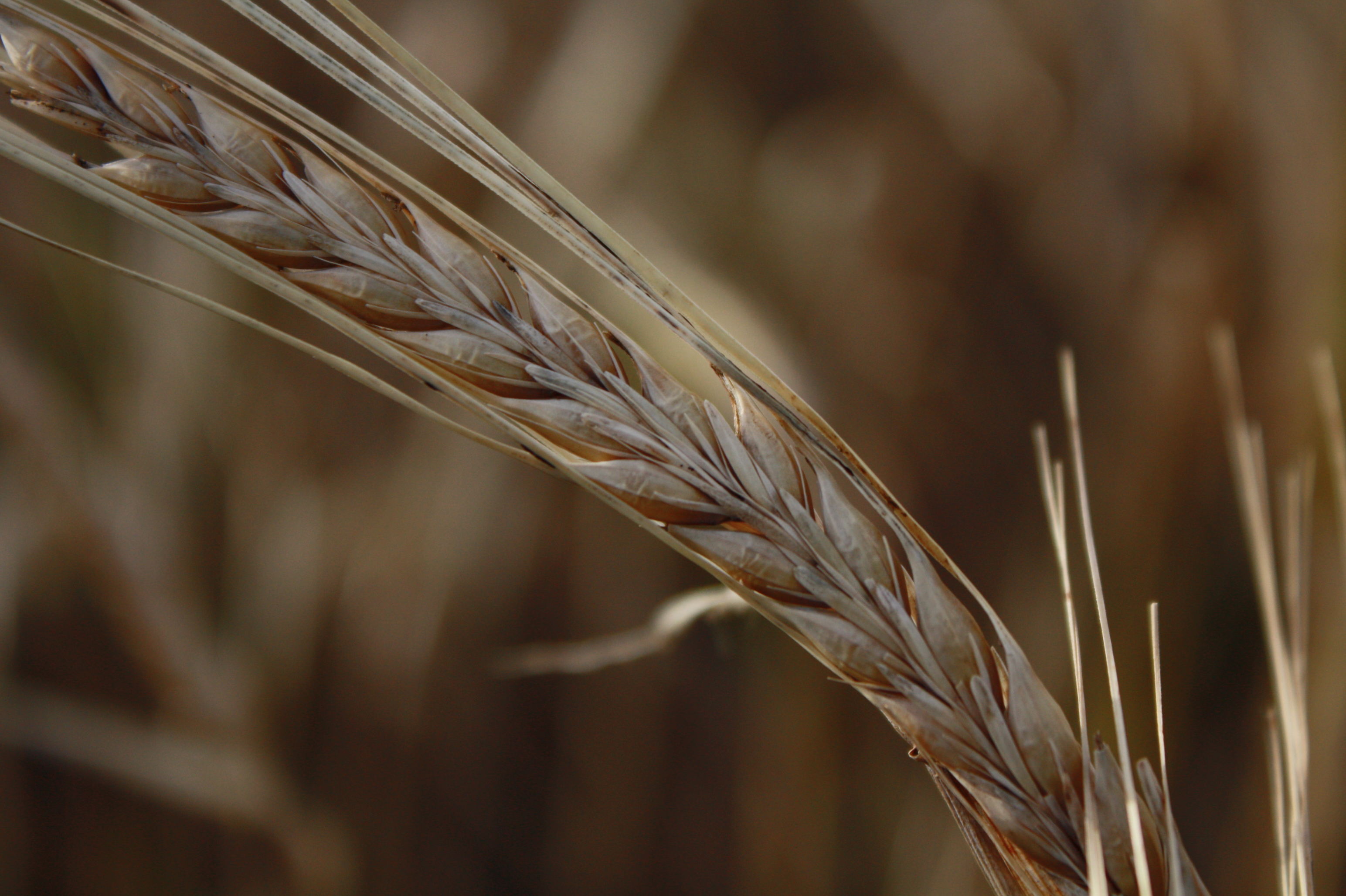 Barley (Hordeum vulgare)